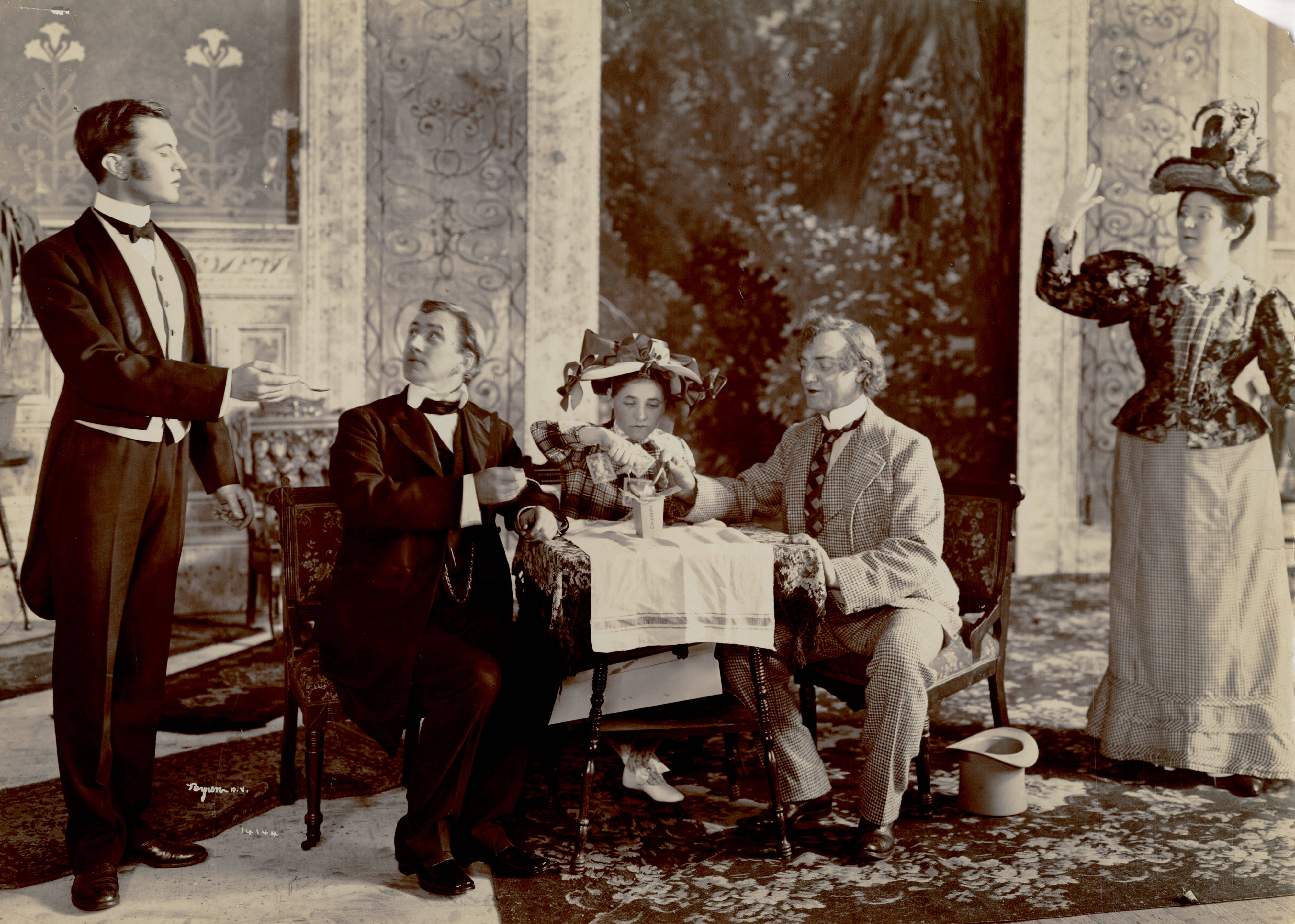 A scene from "The Vinegar Buyer," which opened Sept. 3, 1903, at the Grand Opera House, Seattle. Includes F. Houston, Ezra Kendall, Rose Norris, C. Bowser, and Marion Abbott. Subjects: plays, actors, actresses, actors